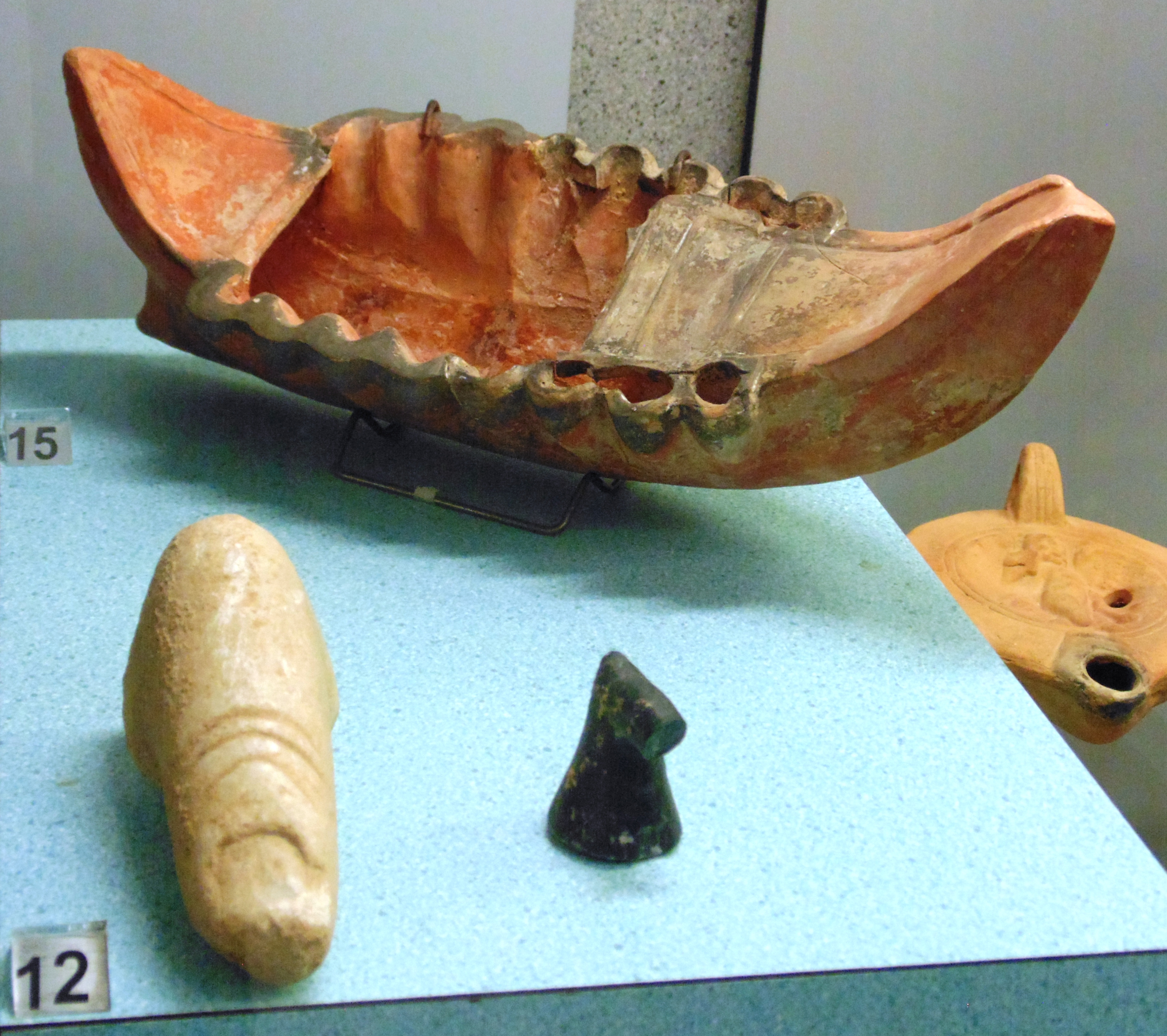 Collection of Archaeological Museum of Eretria